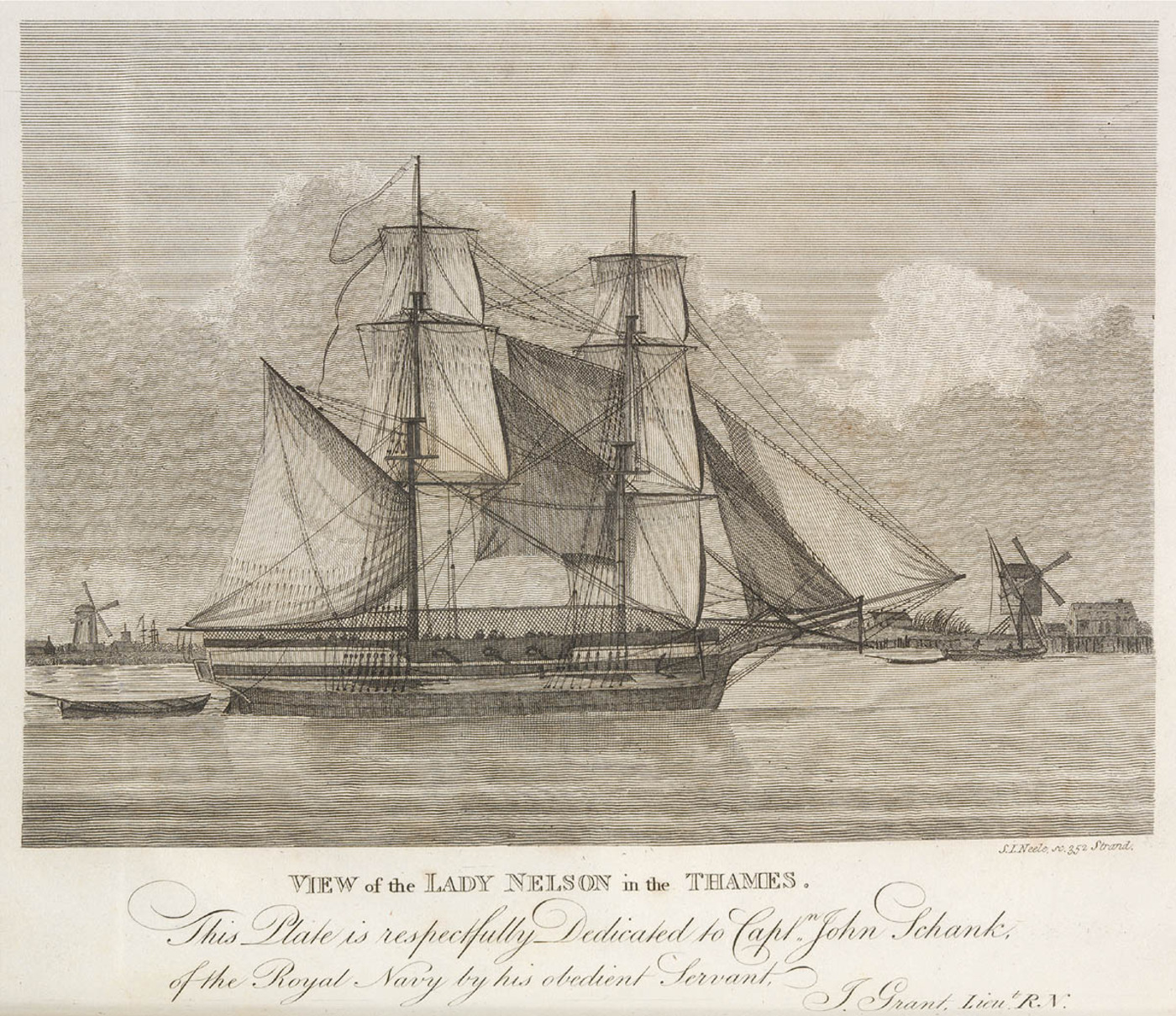 Print, View of the Lady Nelson in the Thames, from an engraving by Samuel John Neele.